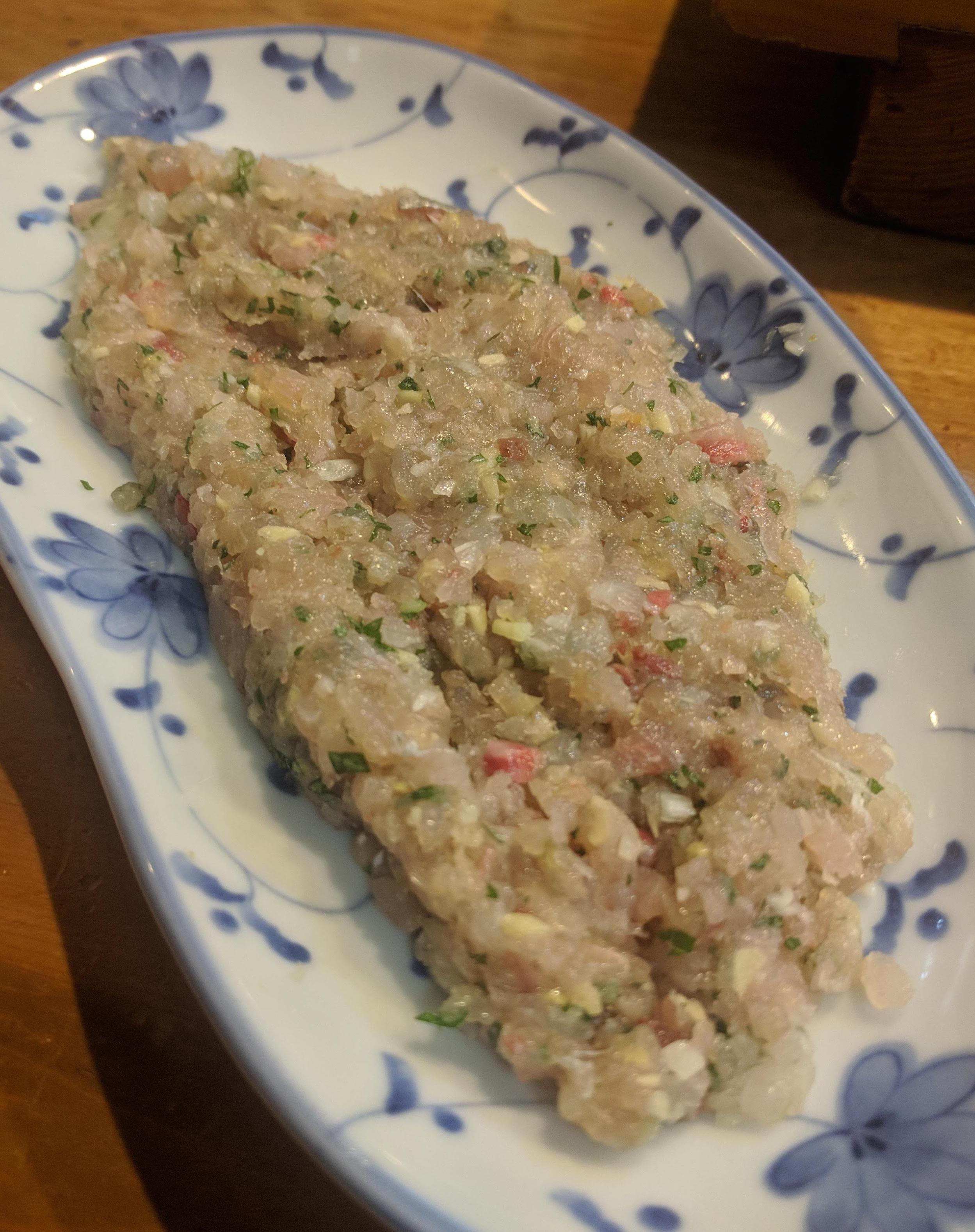 Namerō made from yellowtail fish served in a sushi restaurant (富鮨) in Tateyama, Chiba Prefecture.